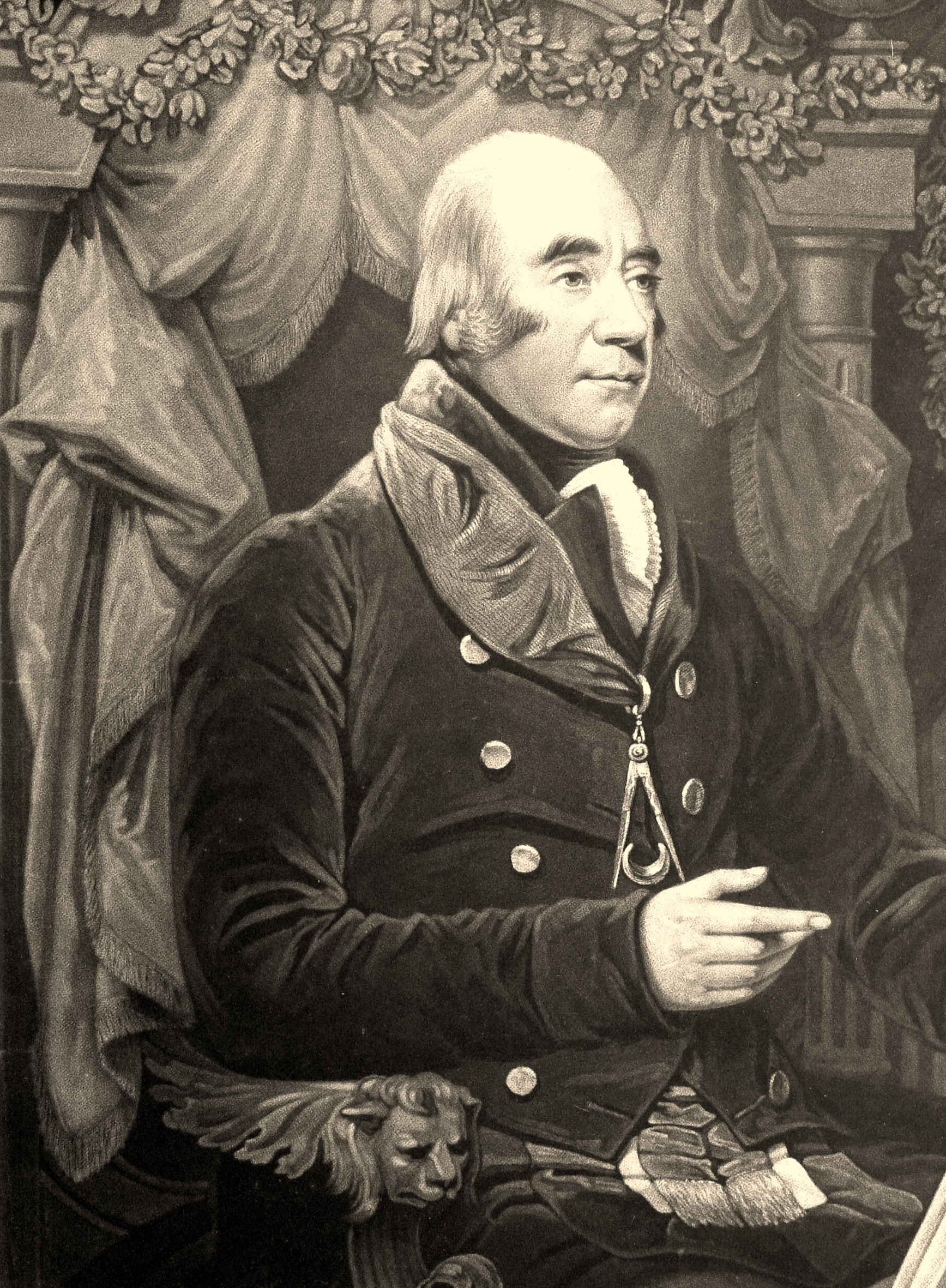 Francis,_1st_Marquess_of_Hastings_(Earl_of_Moira).jpg